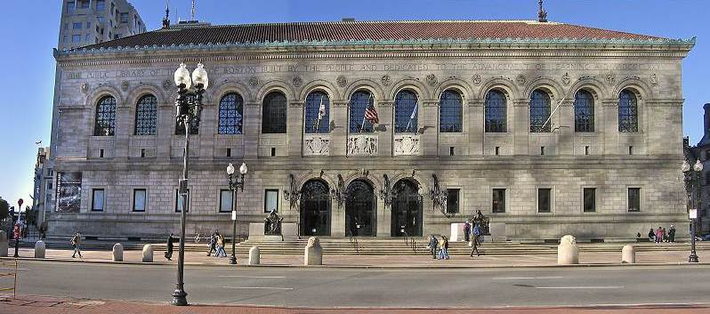 McKim building of the Boston Public Library.